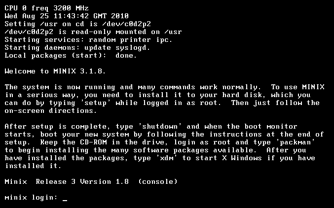 The login screen to Minix Version 3.1.8